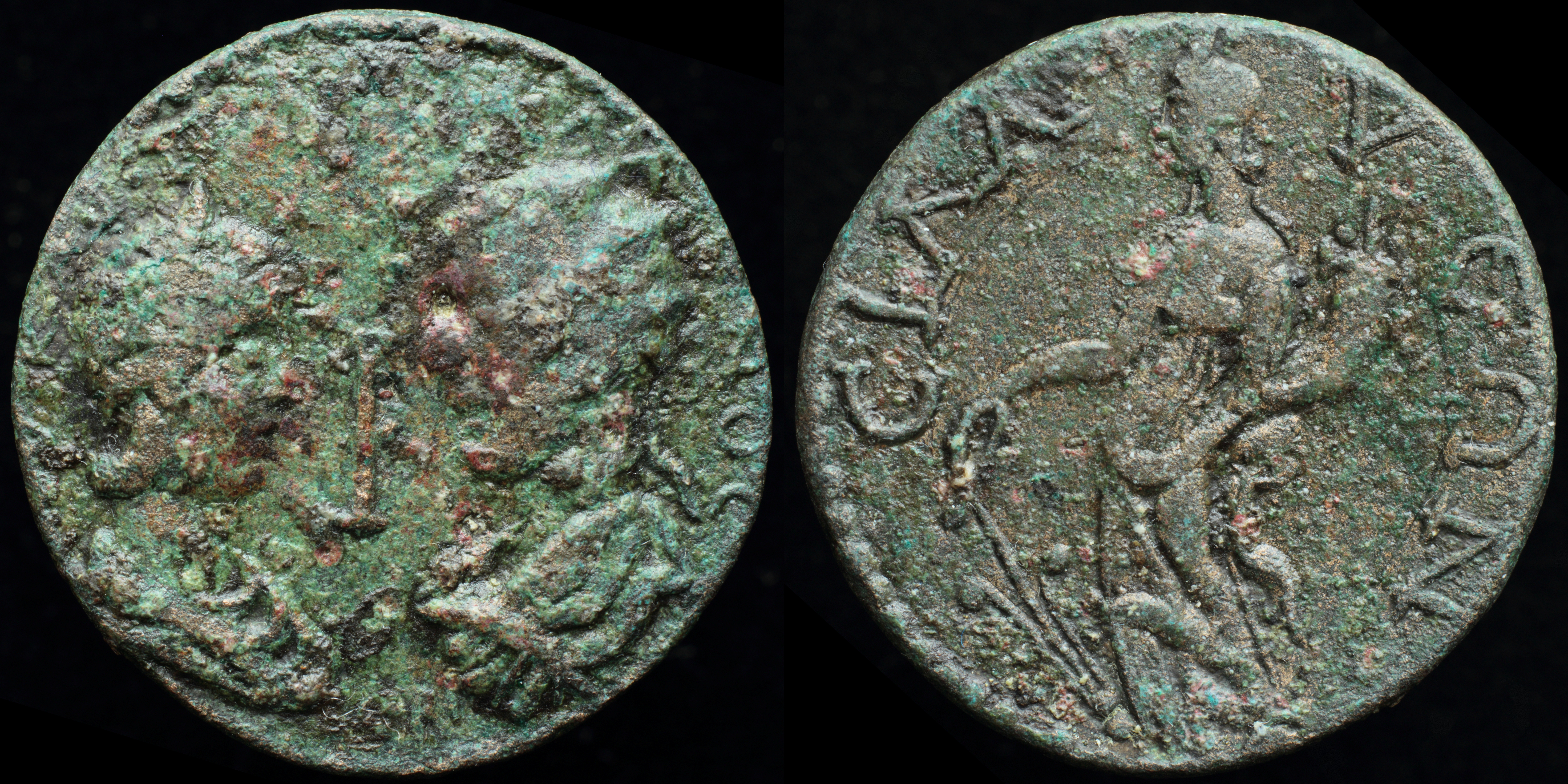 bronze 10 assarion struck by Gallienus in Sillyum 253-268 AD obverse: radiate, draped and cuirassed bust of Gallienus left , confronting laureate and draped bust of Salonina right AV K ΠO ΛI ΓAΛΛIHNOC I reverse: Tyche standing half left, holding rudder and cornucopia CIΛΛVEΩN ref.: for obverse: SNG RIGHETTI 1320; SNG v. Aulock 4890; Lane S. 148, 44 for reverse: SNG PFALZ 4 958 SNG France 1013; SNG von Aulock 4892; BMC 18 S169,22